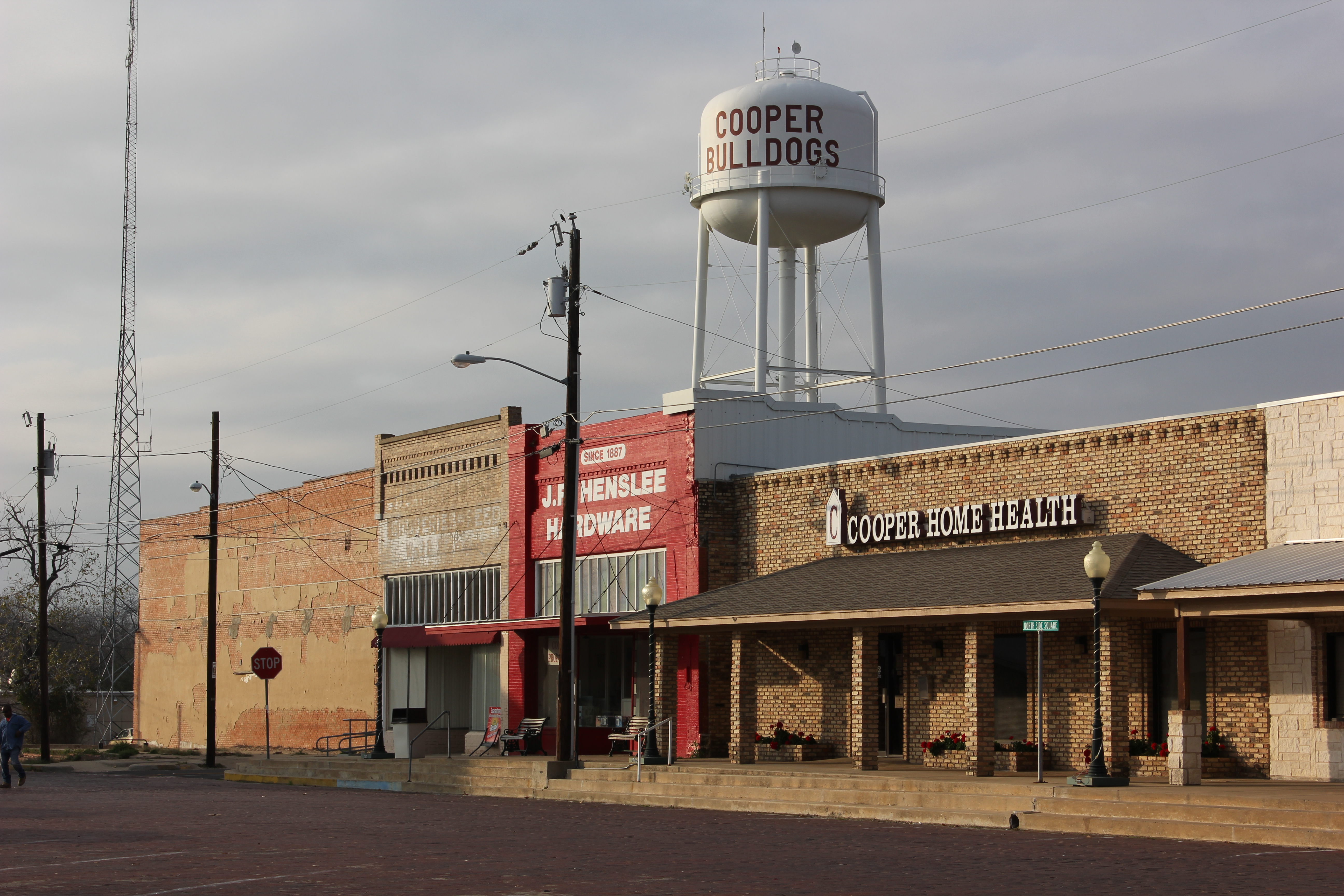 Shot of downtown Cooper, Texas.